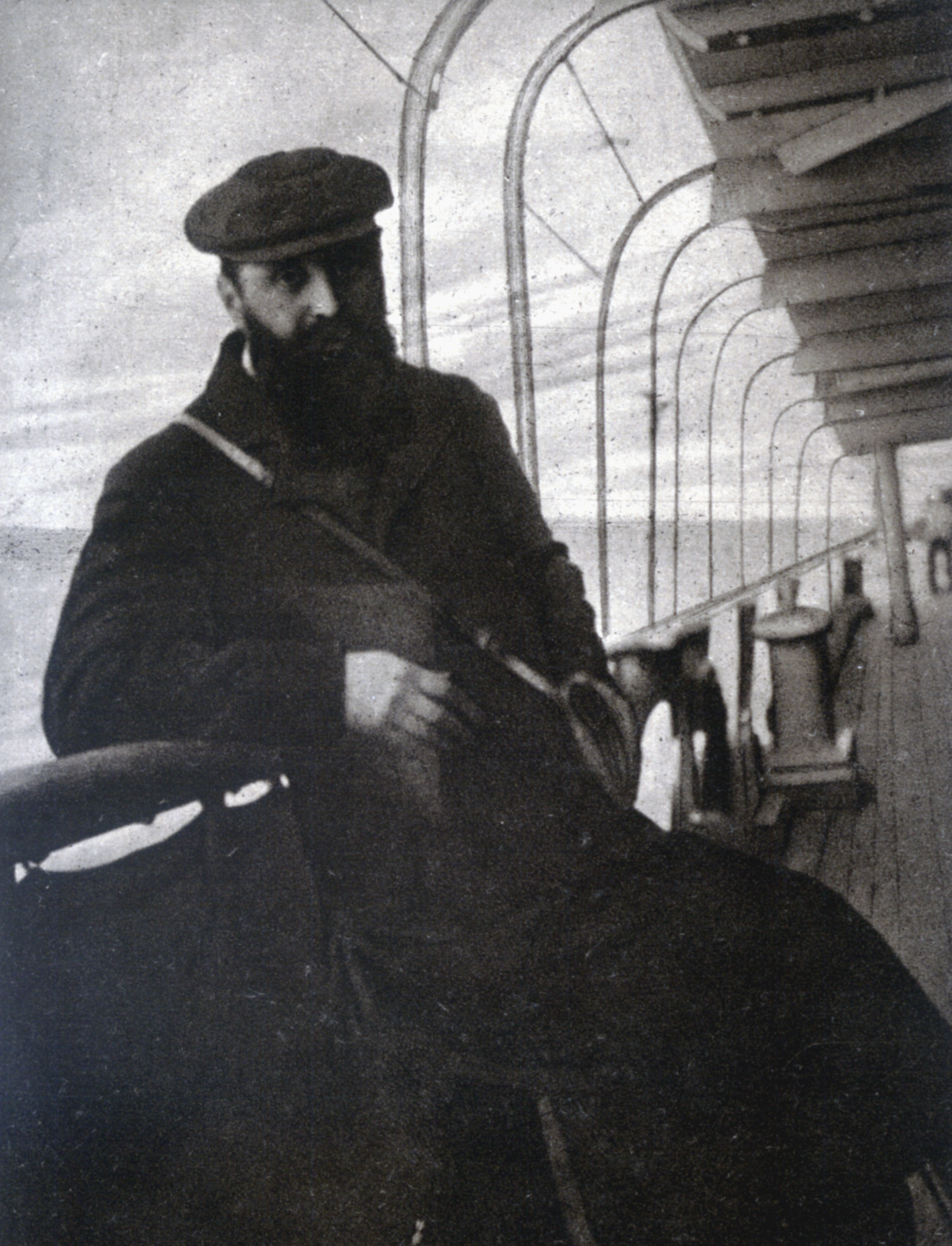 Theodor Herzl on the passage to Egypt (1903). Photo of an unknown photographer on a contemporary picture postcard of the Keren Kayemet LeYisrael (JNF), a. 1910